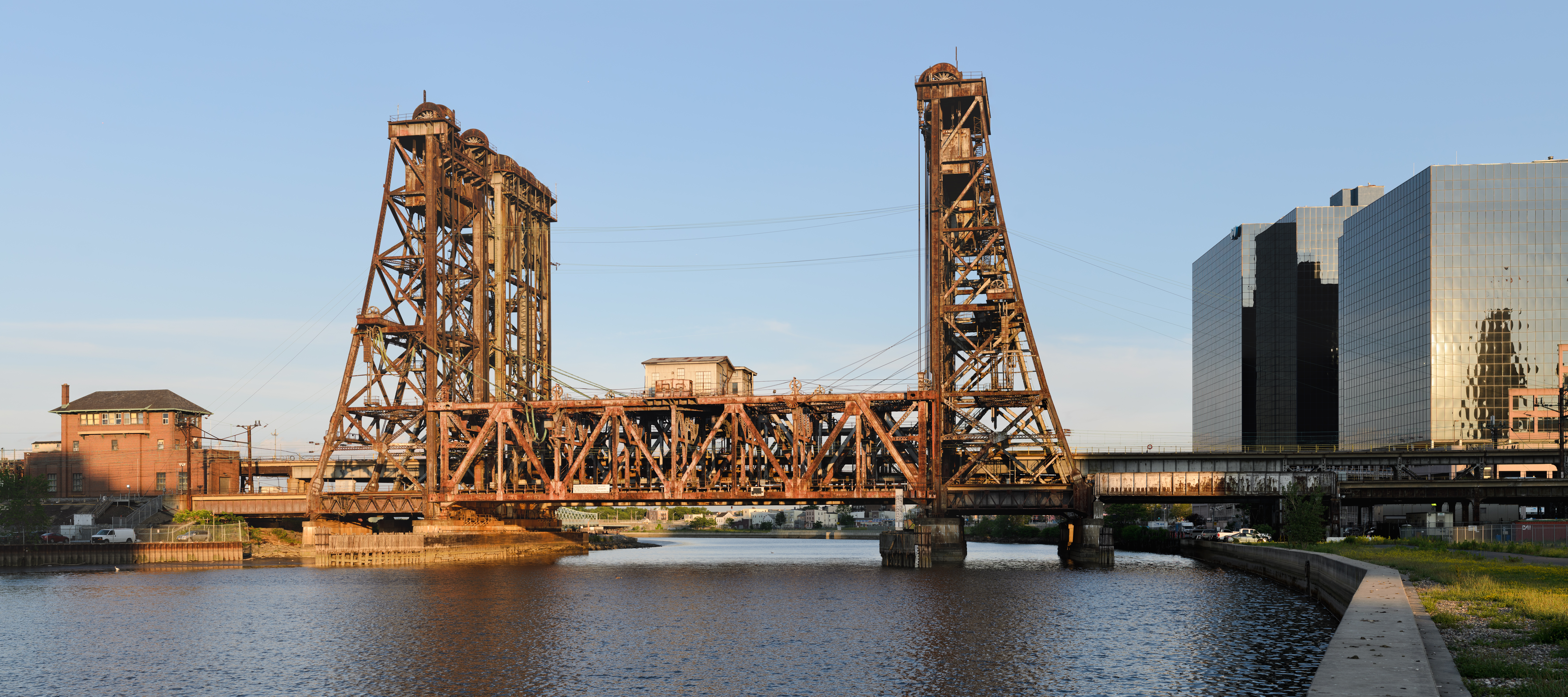 Six-segment (3 × 2) panorama of the Dock Bridge, as seen from Newark, New Jersey.